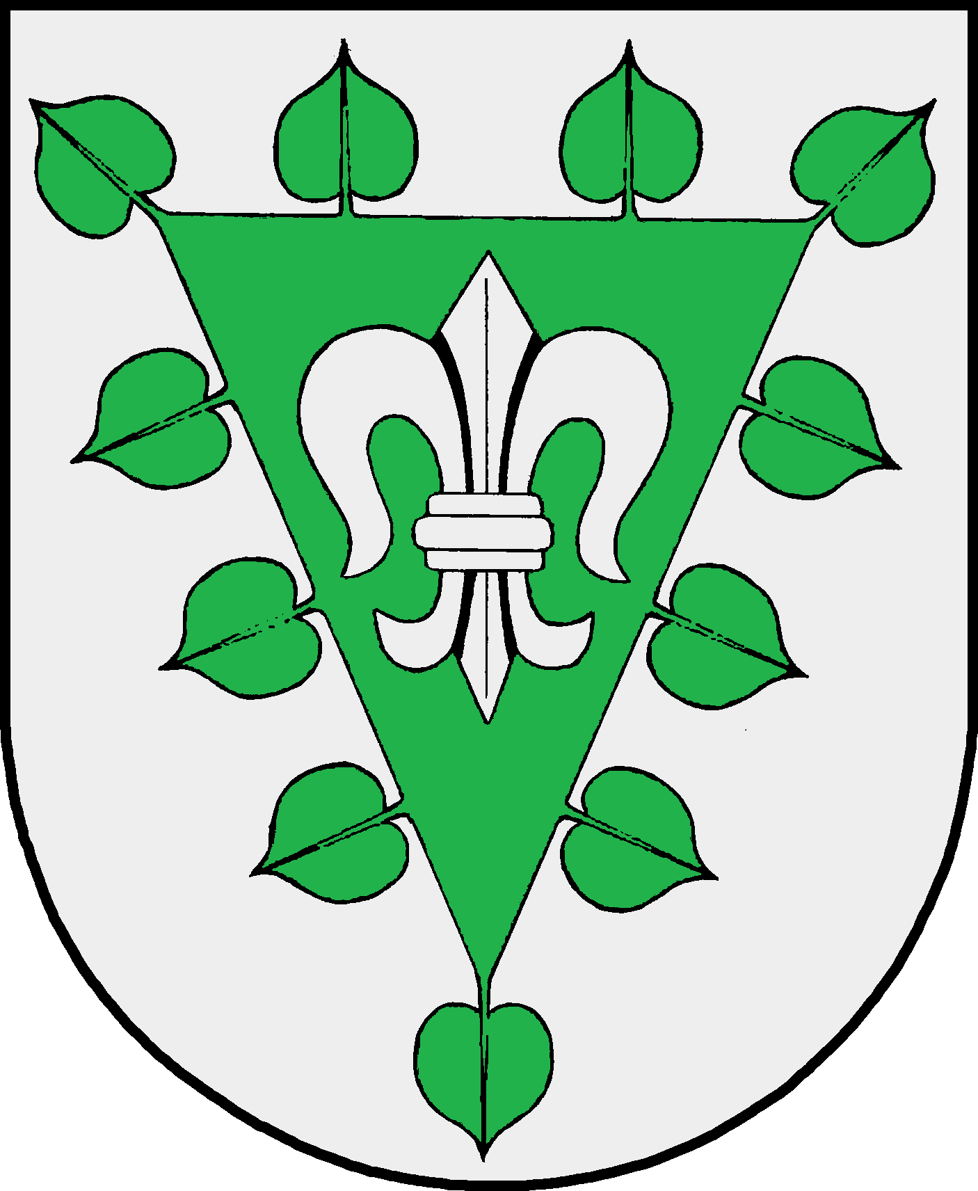 Coat of arms of the municipality Wiershop in Schleswig-Holstein, Germany.